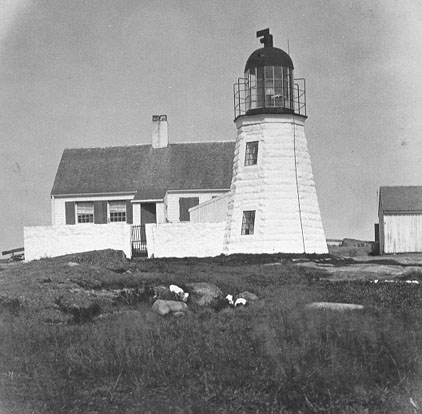 Ten Pound Island Light, Gloucester Harbor, Massachusetts, 1821 version